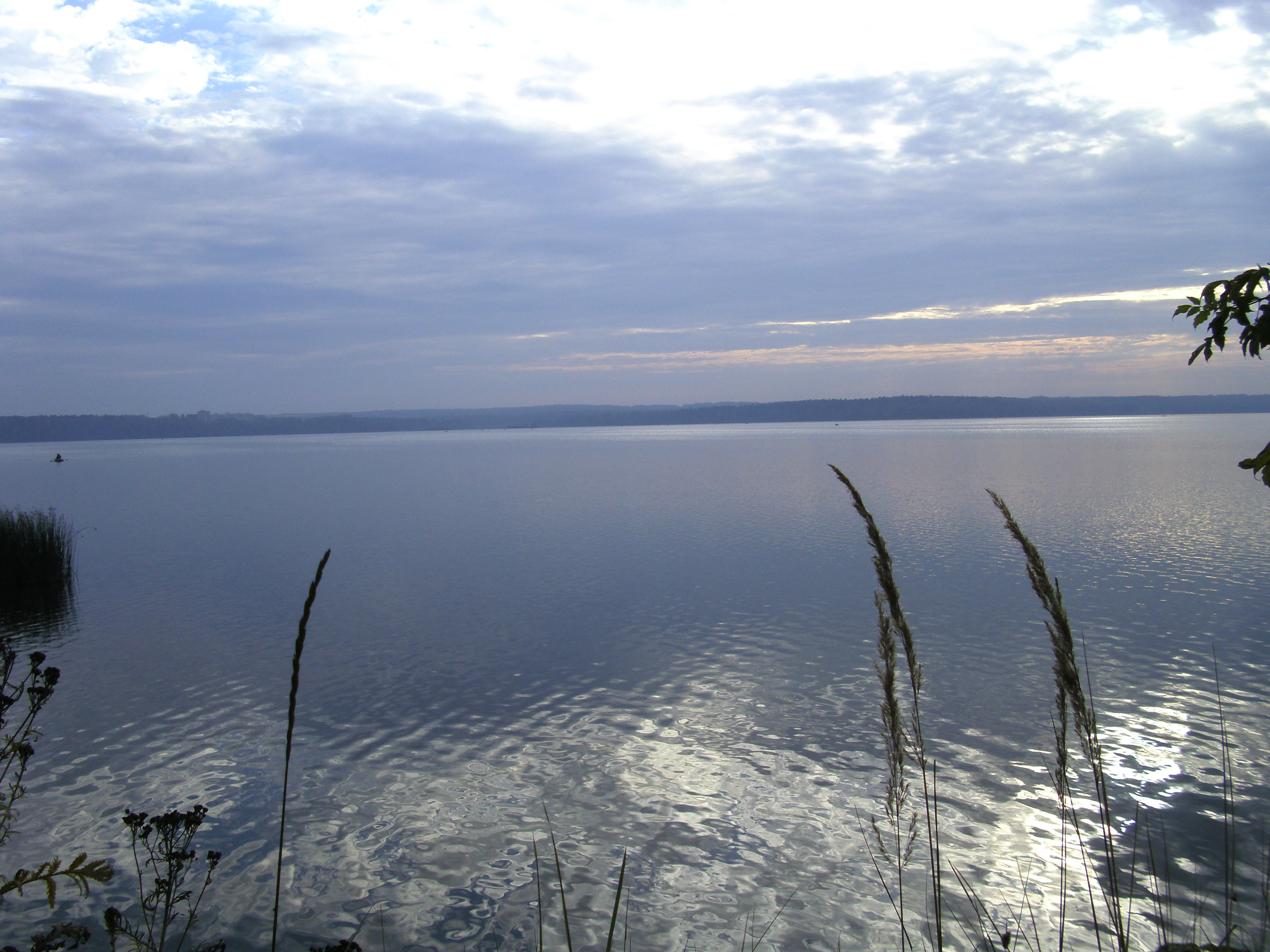 Senezh Lake in September's morning